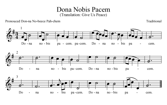 Dona Nobis Pacem, a song in the form of a round, from the 16th century. Encoding by me.